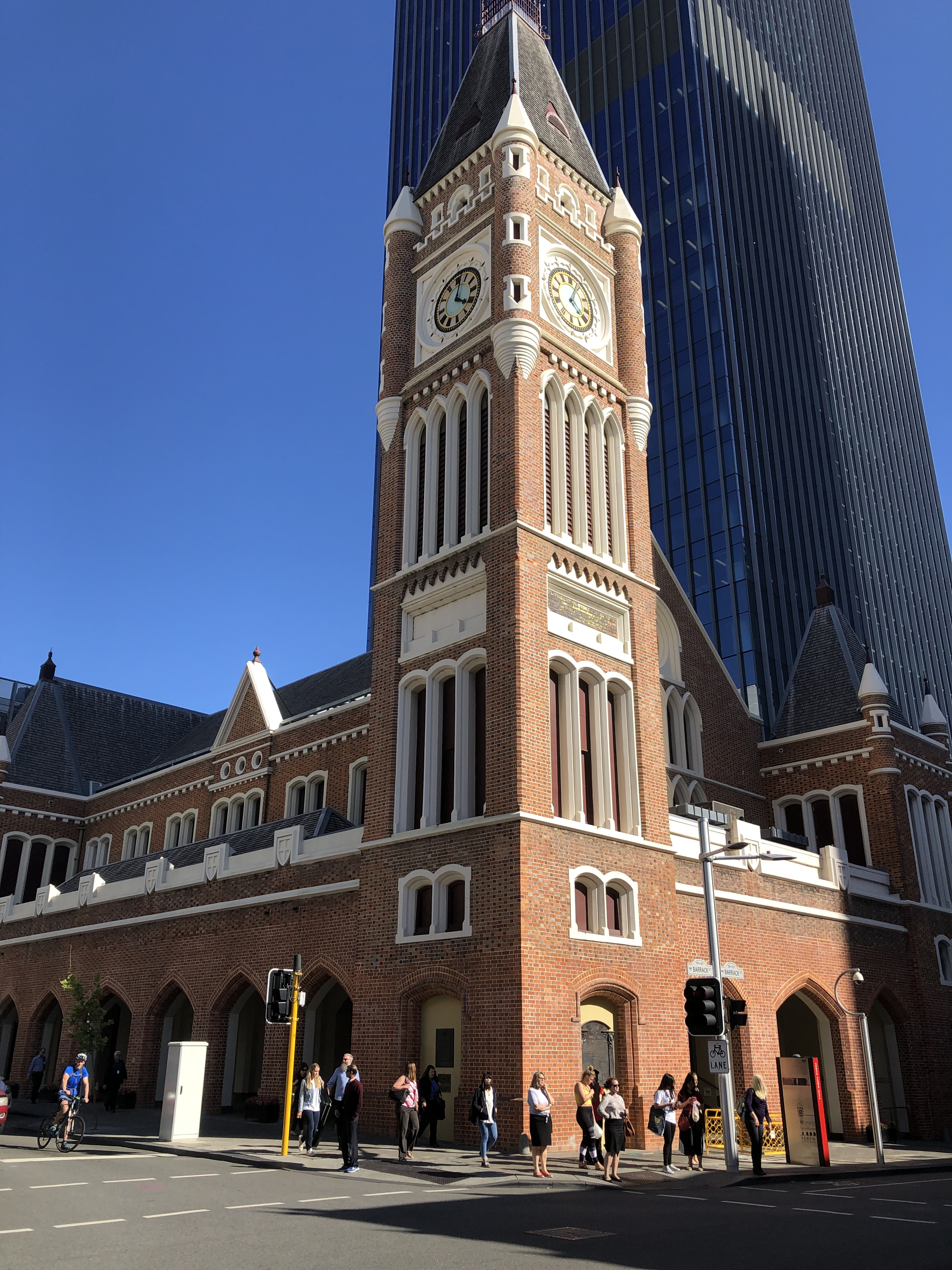 Exterior of Perth Town Hall